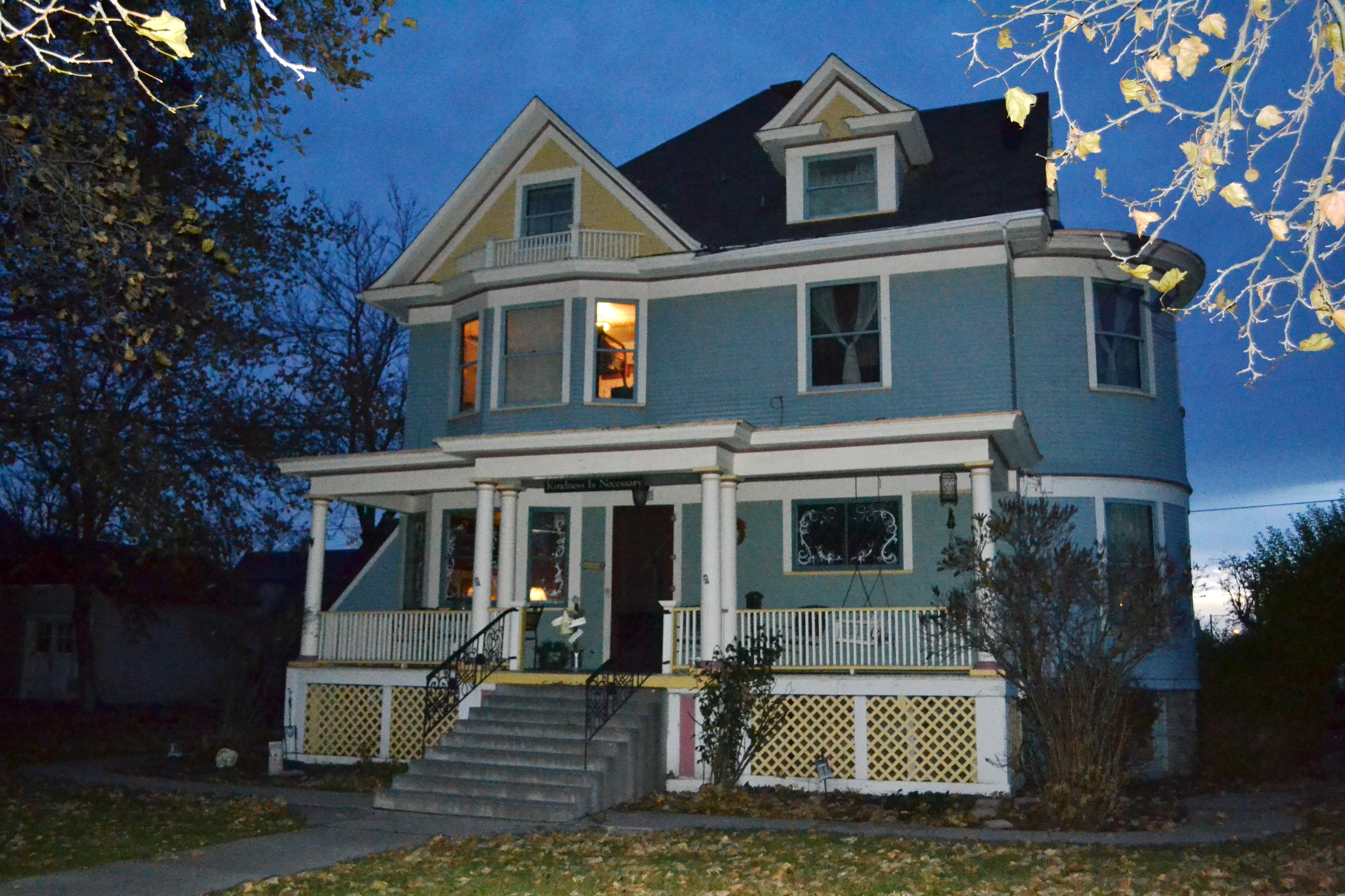 The James Rowley and Mary J. Blackaby House (built 1908), located at 717 Southwest 2nd Street in Ontario, Oregon, United States, is listed on the U.S. National Register of Historic Places.